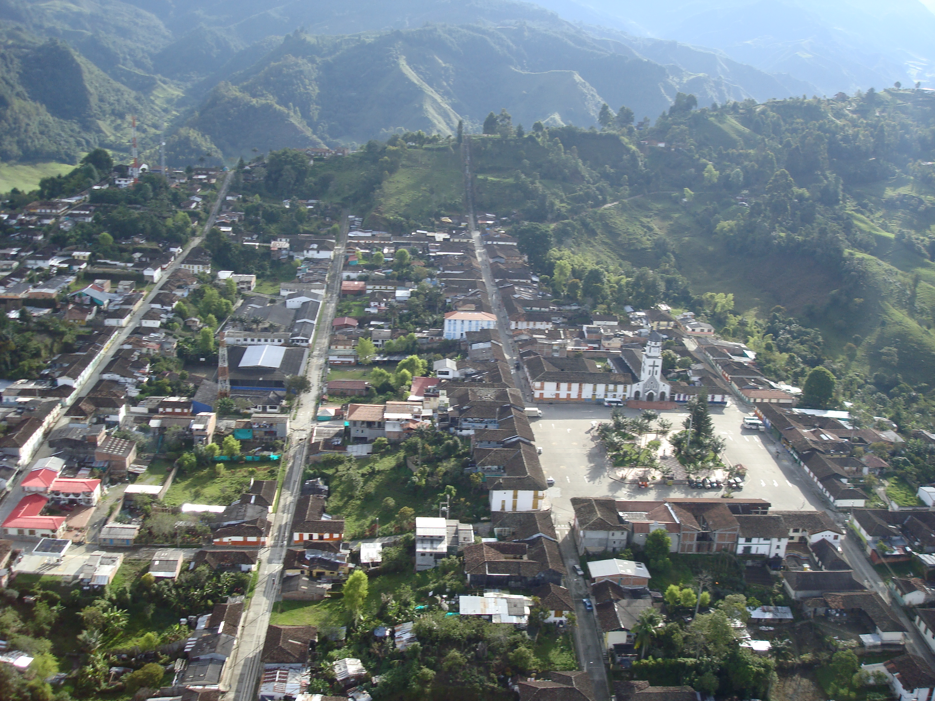 Vista aerea de Salento